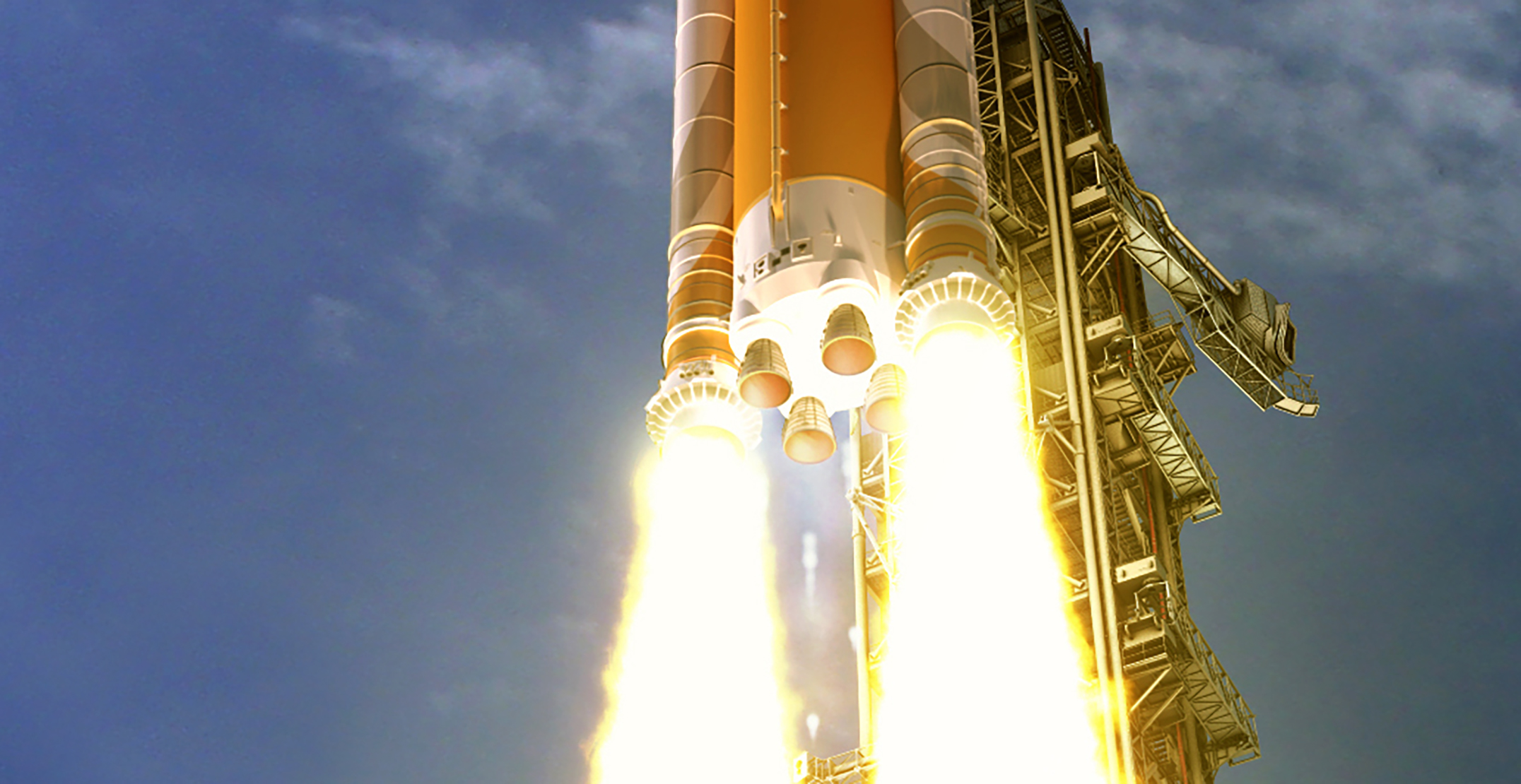 Artist rendering of the RS-25 engines and boosters powering the liftoff of the Block 1 70-metric-ton (77-ton) lift capacity configuration SLS from the pad.